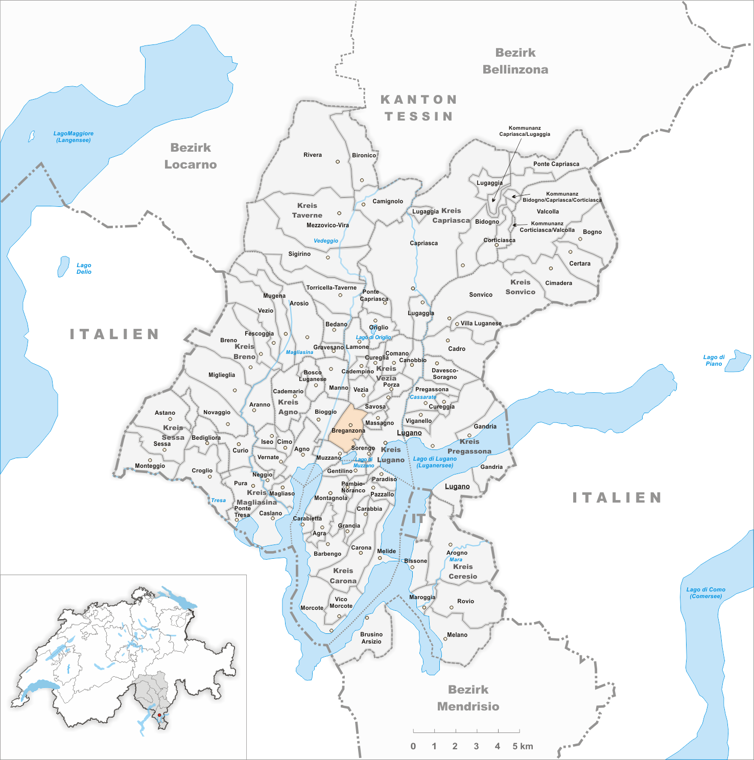 Municipality Breganzona Artist: Tschubby